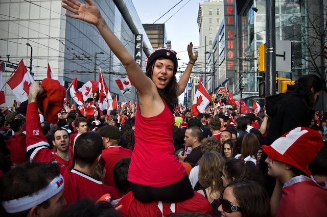 Hockey fans party in the streets of downtown Vancouver after the Canadian Mens Hockey team beat the USA in overtime for the Olympic gold medal.